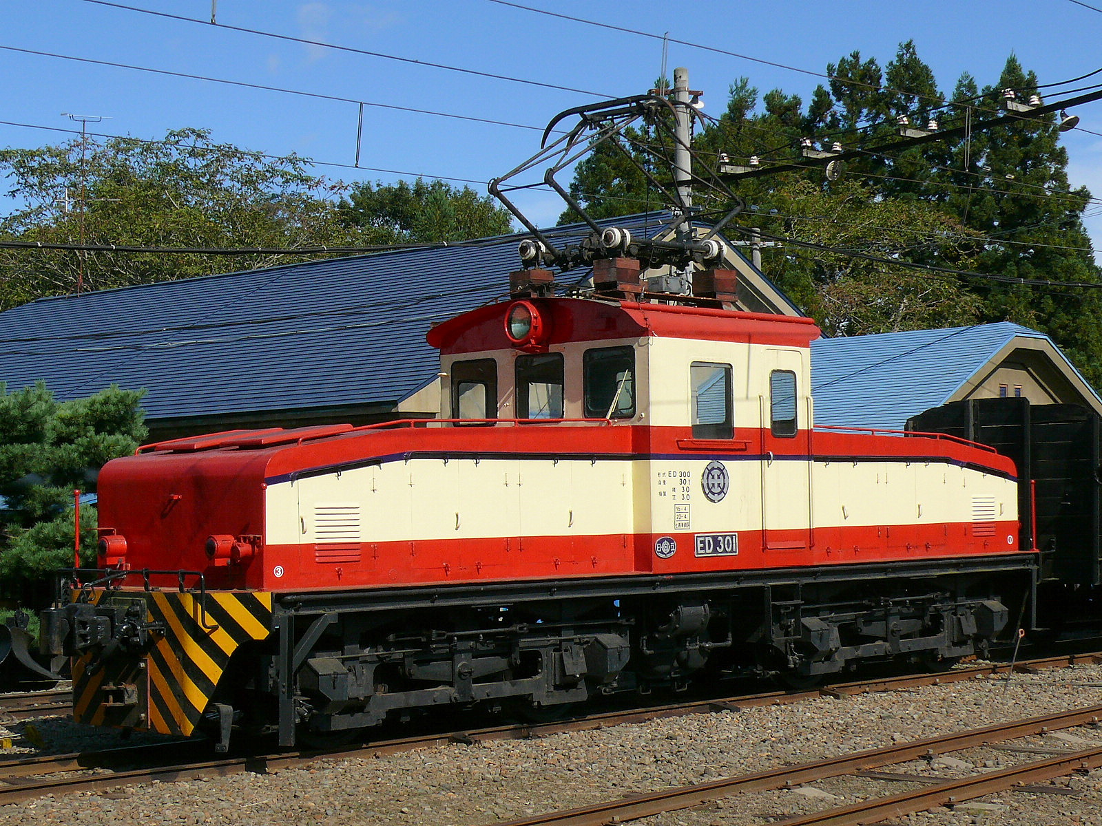 Towada Kanko Electric Railway Type ED301 Electric locomotive. (Aomori Prefecture)